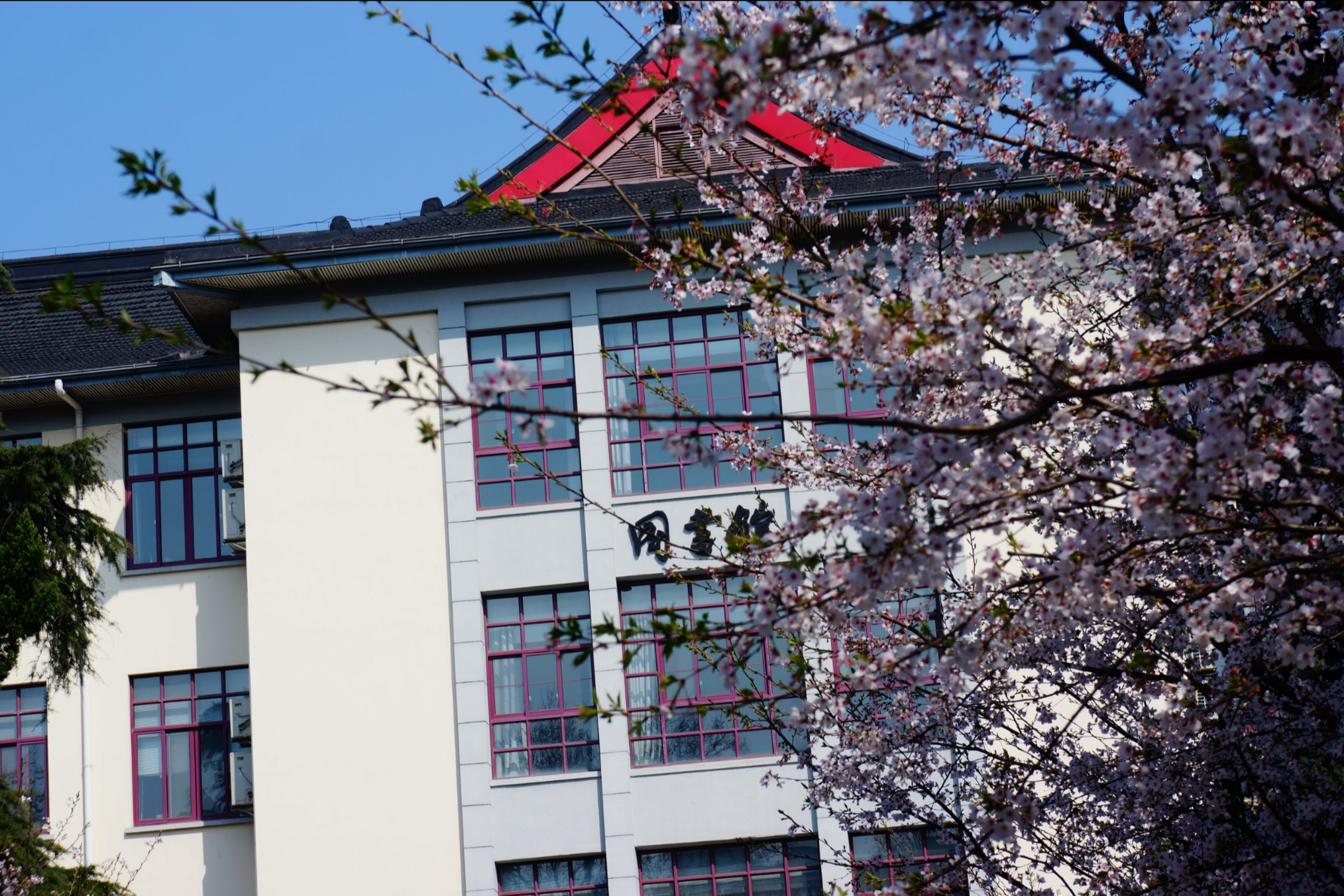 NFU_old library